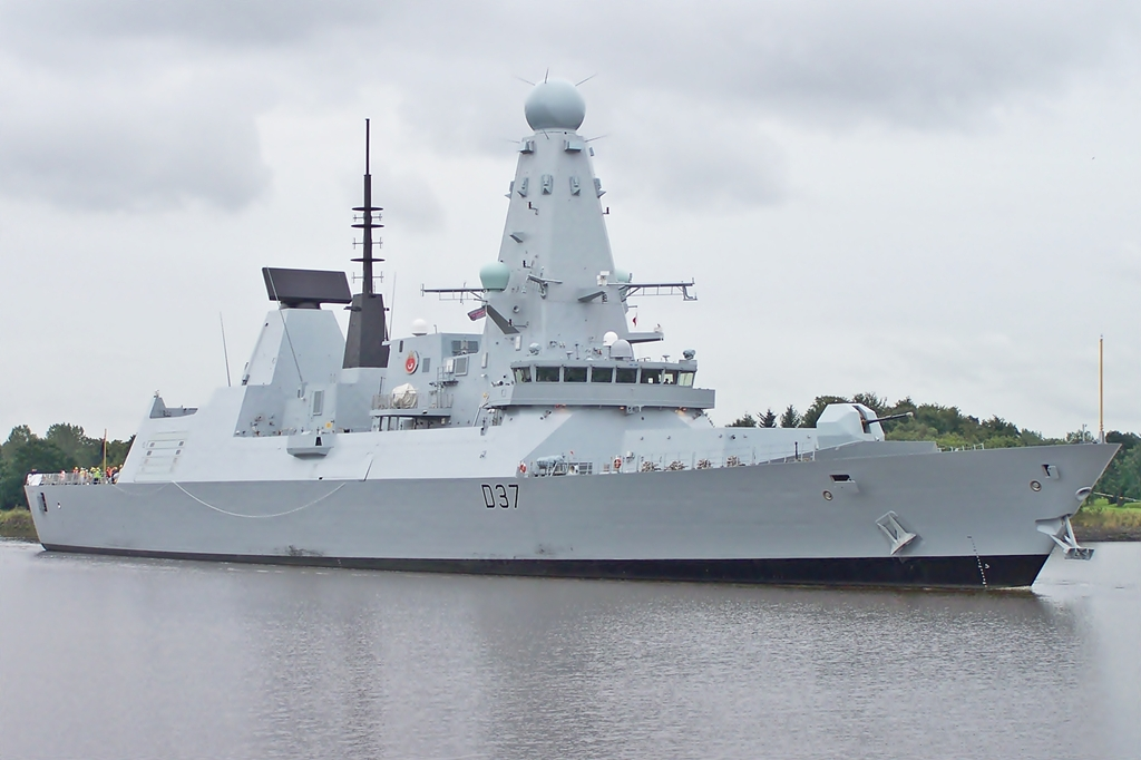 Duncan passing Clydebank leaving for first sea trials